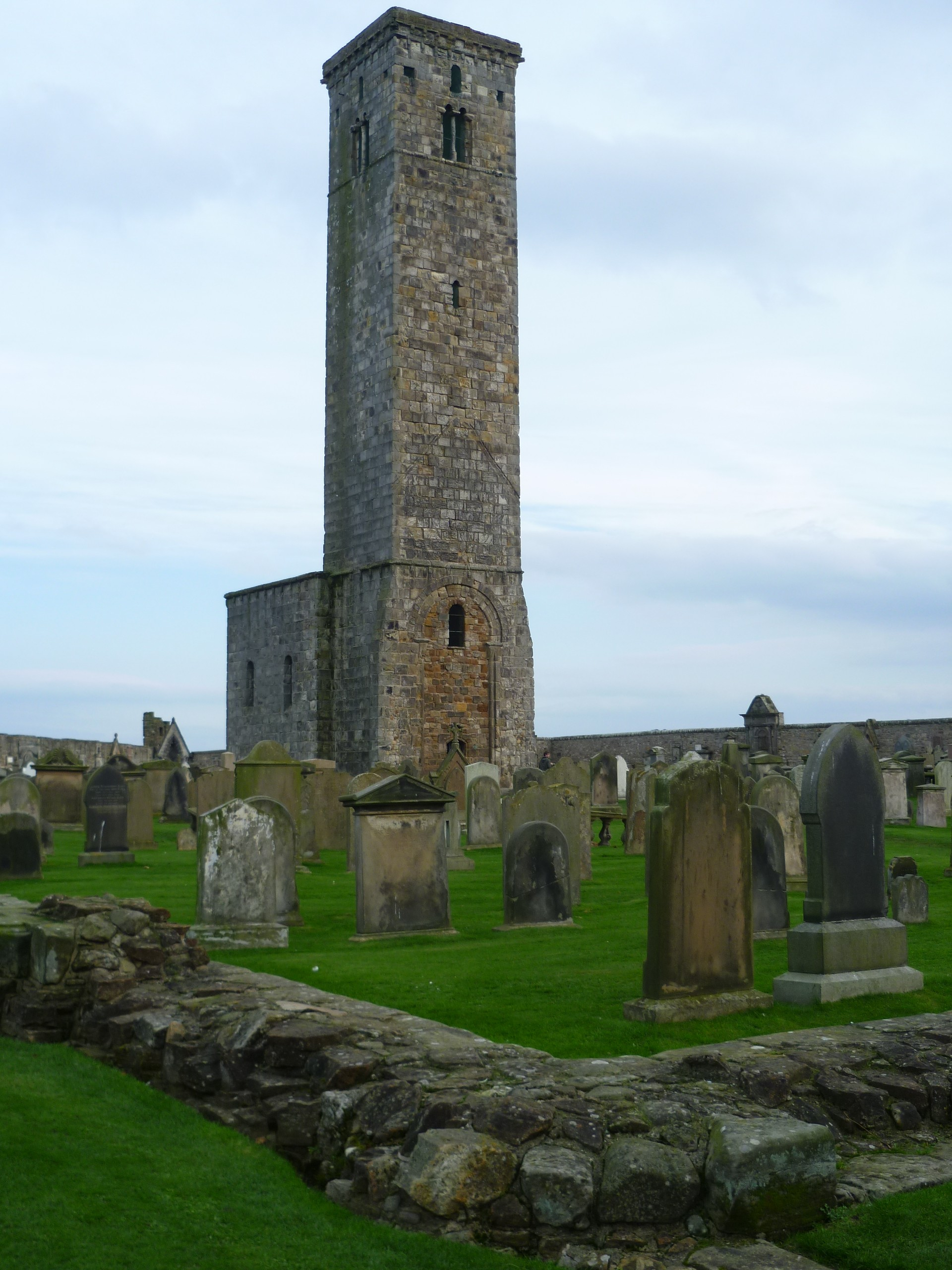 Tower of St. Rule's Church in the grounds of St. Andrews Cathedral, Fife